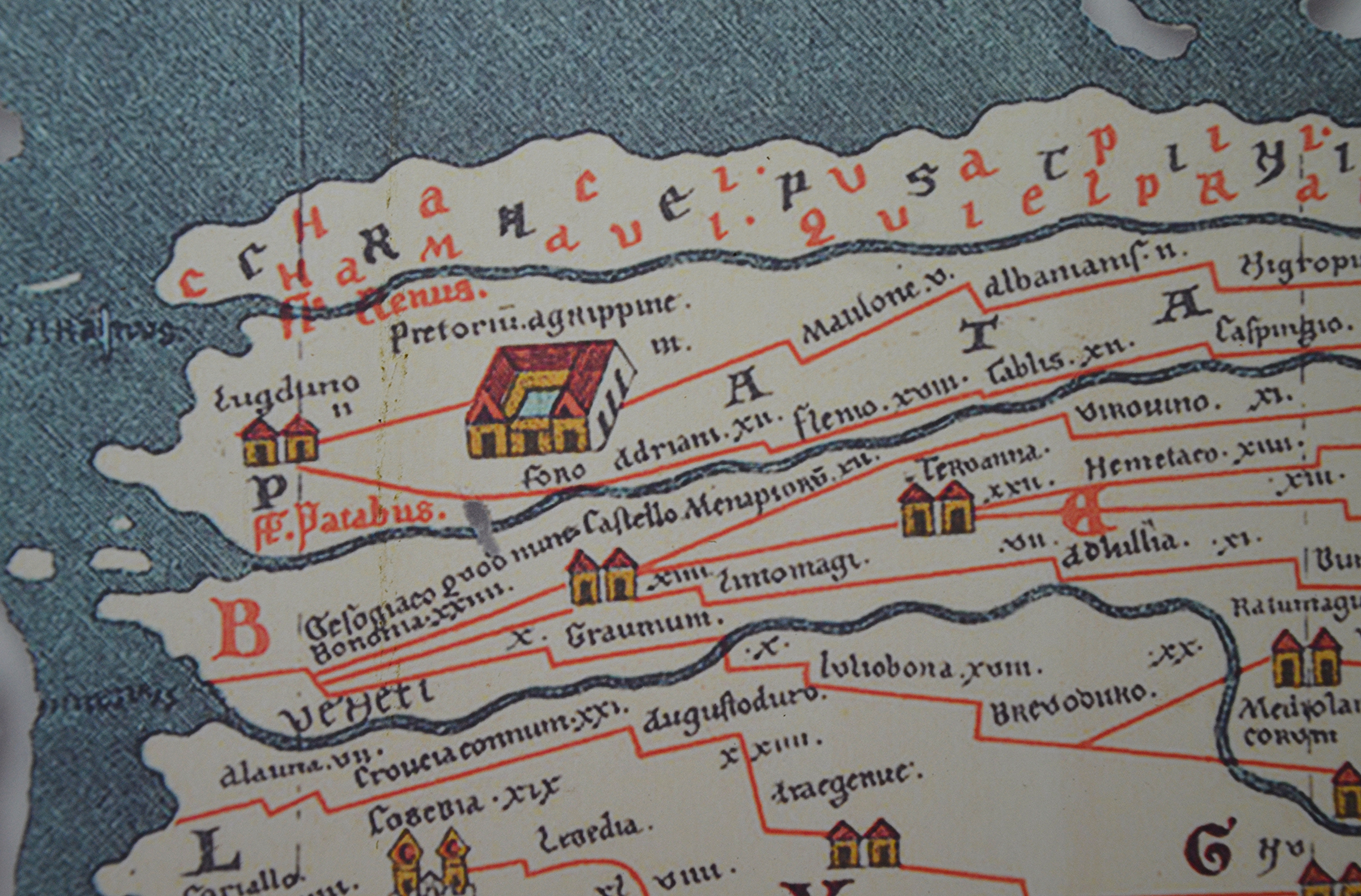 Forum Hadriani on the Tabula Peutingeriana, Aurelium Cananefatium/Forum Hadriani, Germania Inferior, Netherlands